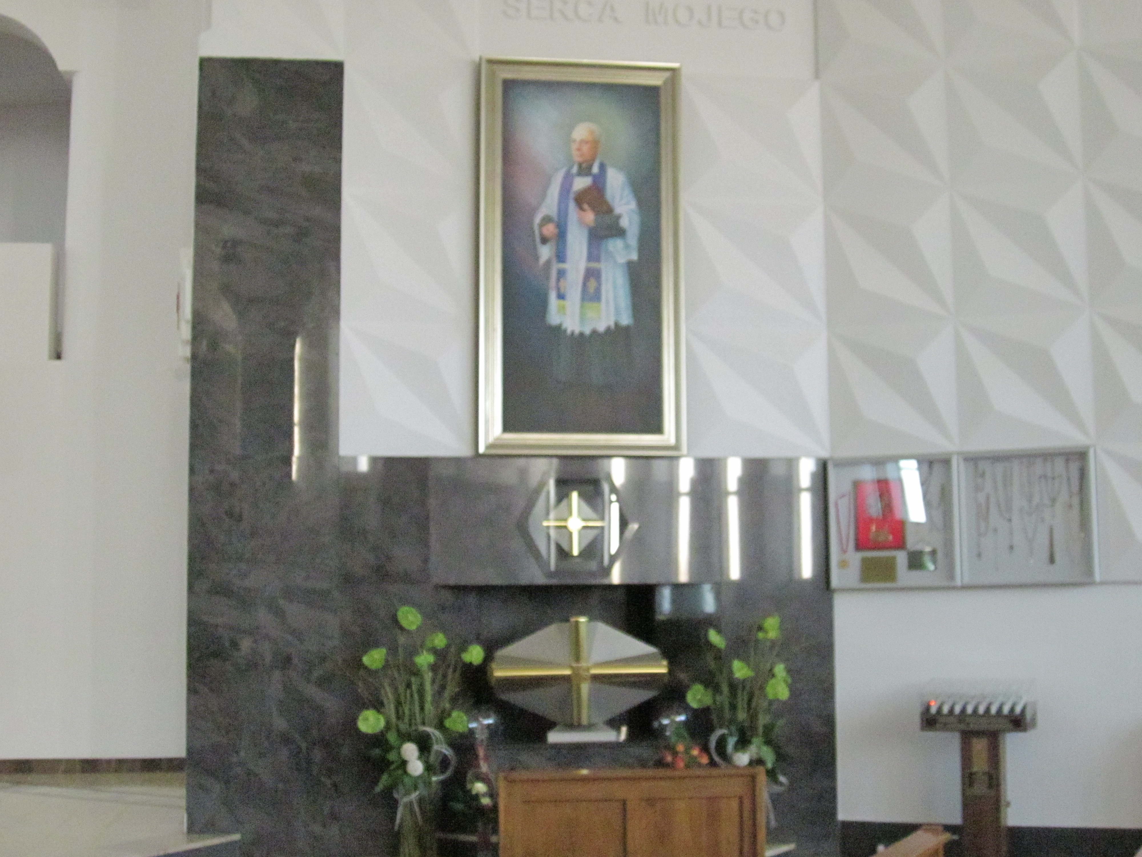 The main altar at the Shrine of Divine Mercy in Bialystok